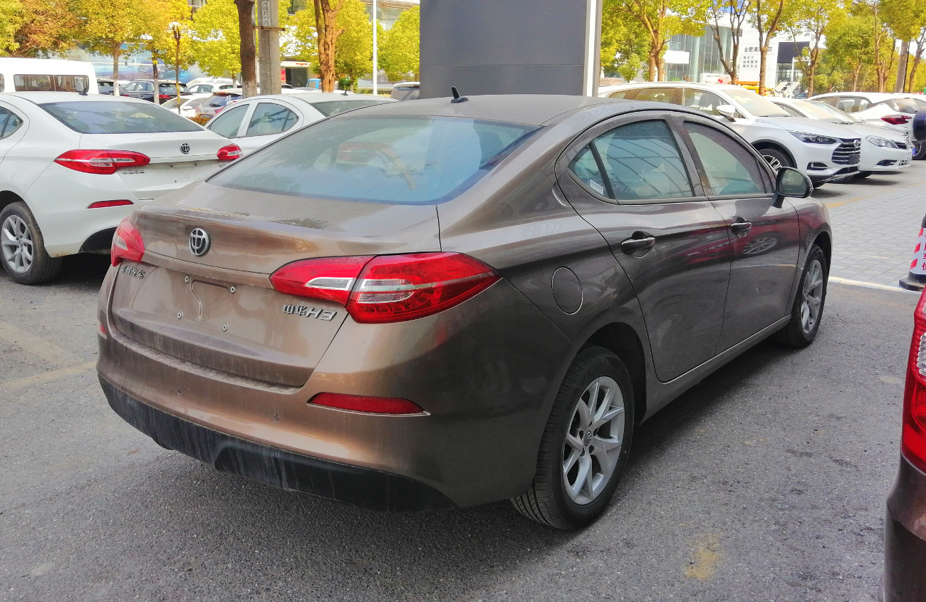 Brilliance H3 photographed in Hefei, Anhui province, China.